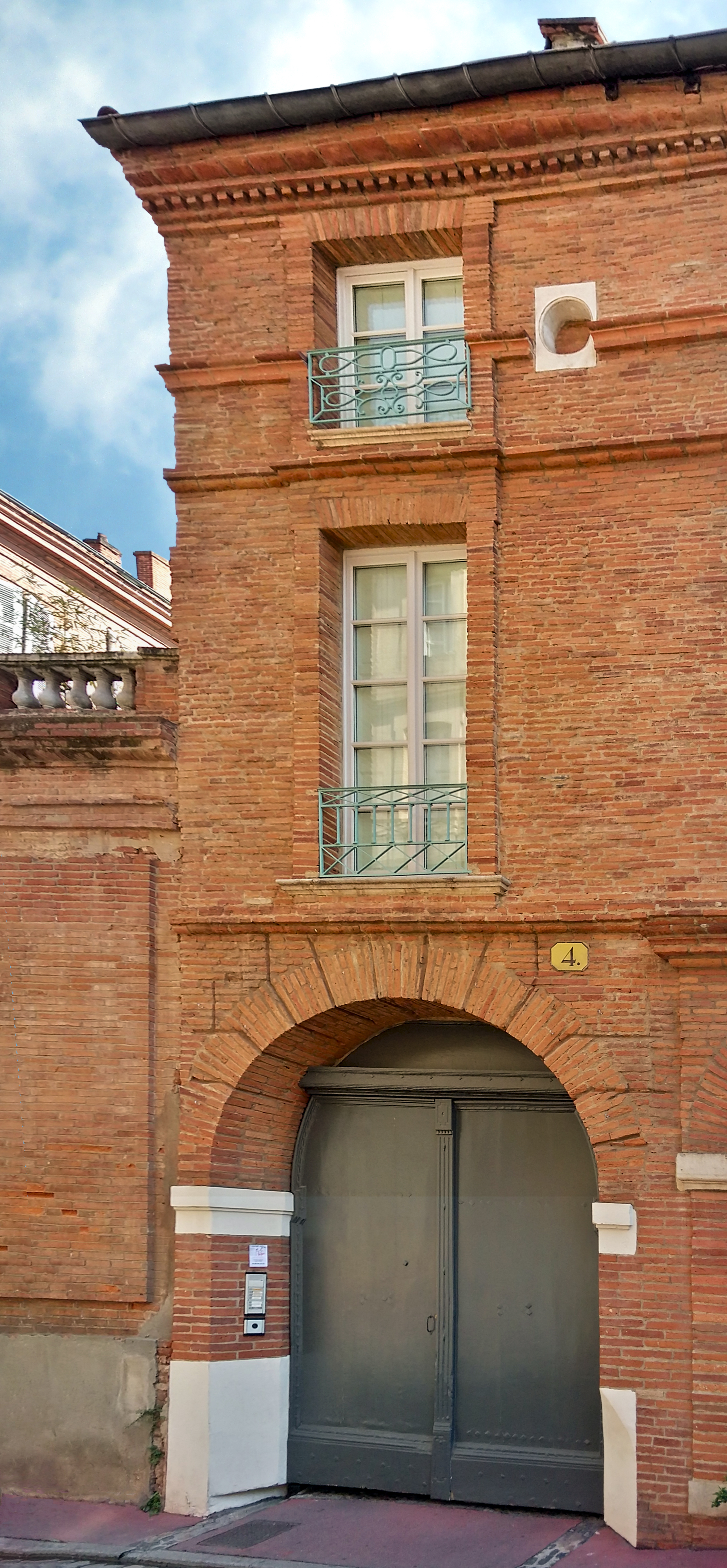 Rue Tolosanein Toulouse, No.4 birthplace of Jean Galbert de Campistron.